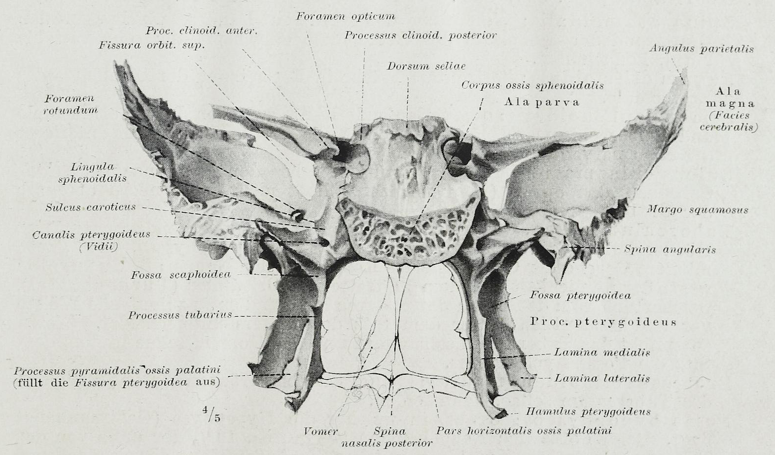 An anatomical illustration from the 1921 German edition of Anatomie des Menschen: ein Lehrbuch für Studierende und Ärzte with latin terminology.